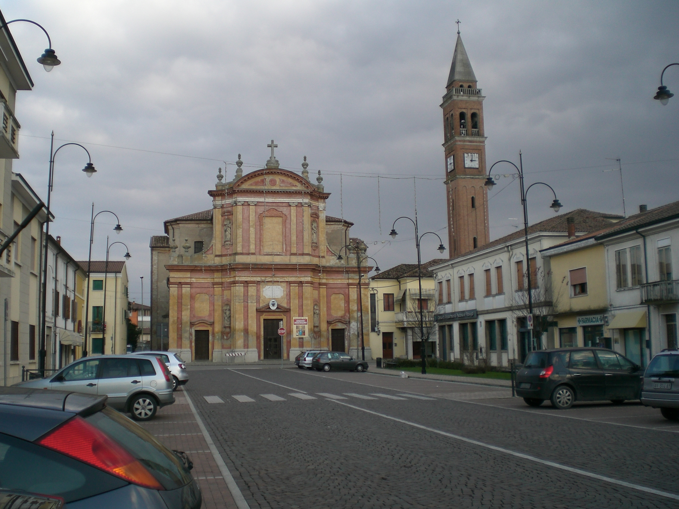 Occhiobello (Rovigo, Italy), San Lorenzo's church